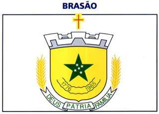 iguatemi ms